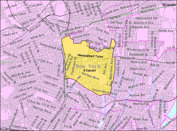 U.S. Census 2000 reference map for Elmont, New York